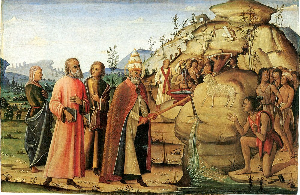 Scene from the Life of st Clemente.